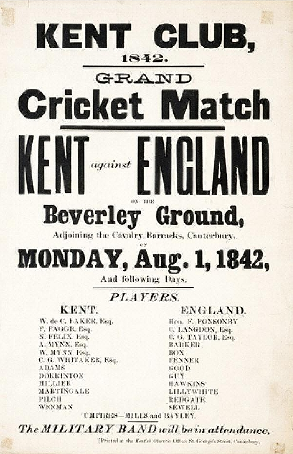 Poster for the Kent Club's Grand Cricket Match Kent v England commencing 1 August 1842 played on the Beverley Ground, Canterbury, printed by the Kentish Observer, Canterbury